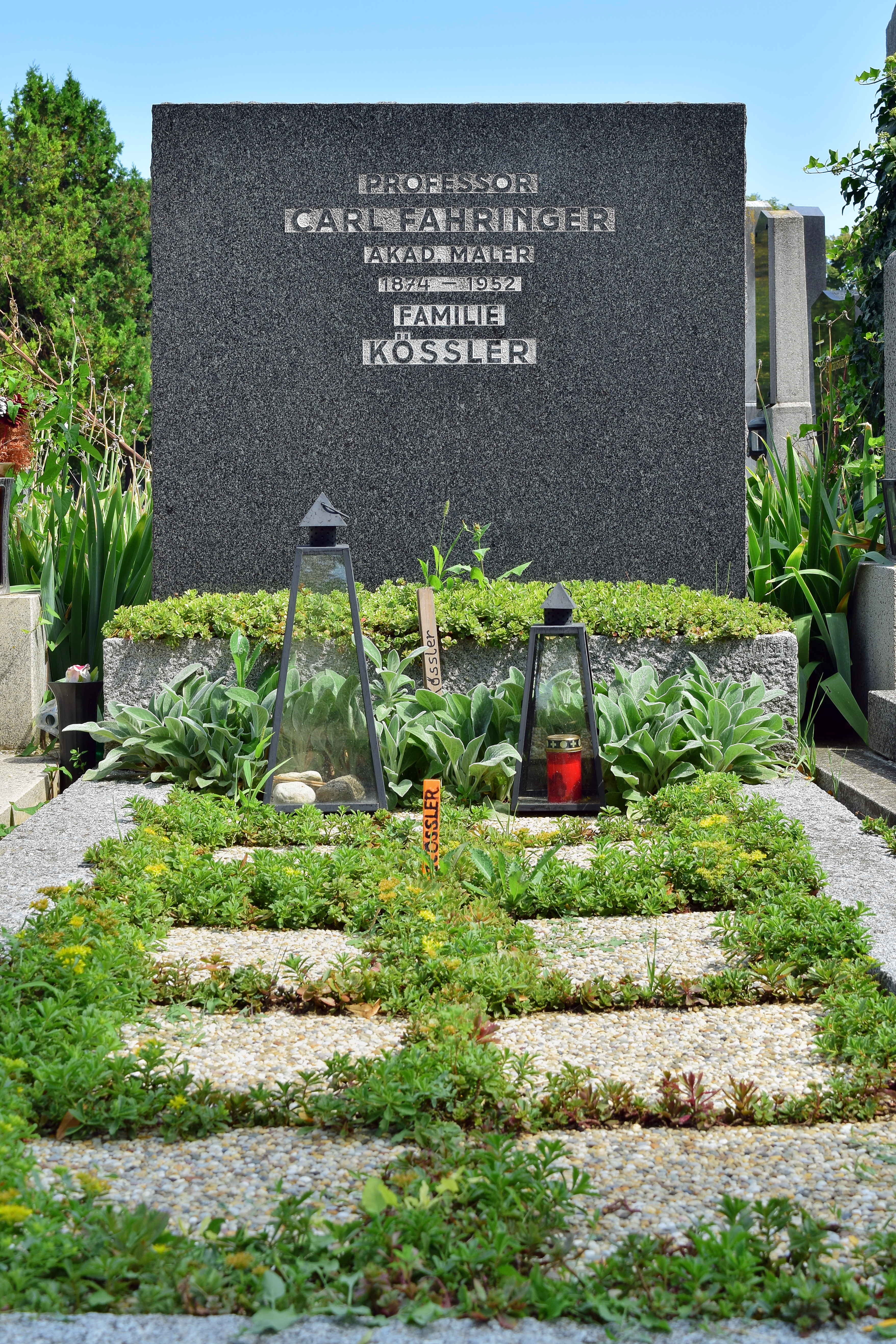 Grave of honor of the Austrian painter Carl Fahringer at the Wiener Zentralfriedhof